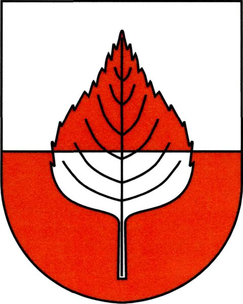 Coat of amrs of Břežany , District Rakovník, Czech Republic